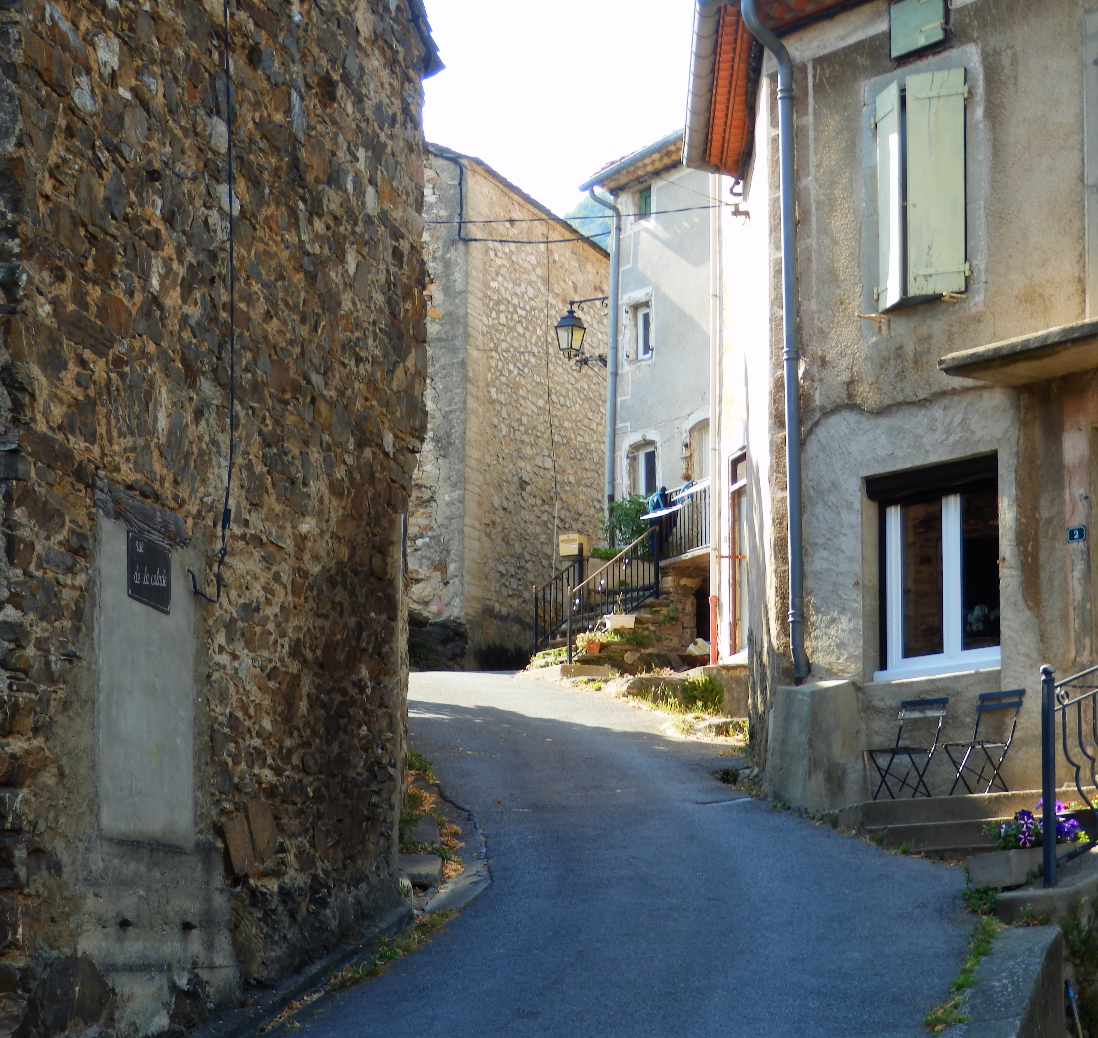 Street in Cassagnoles, Hérault, France, in June 2018